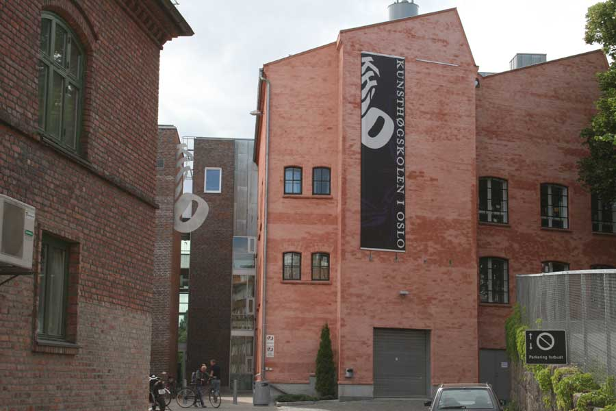 Oslo National Academy of the Arts, new location in the old sail factory at Grünerløkka